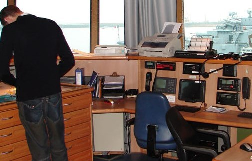 Chart table and radio console on the Argonaute (Fr 2005)